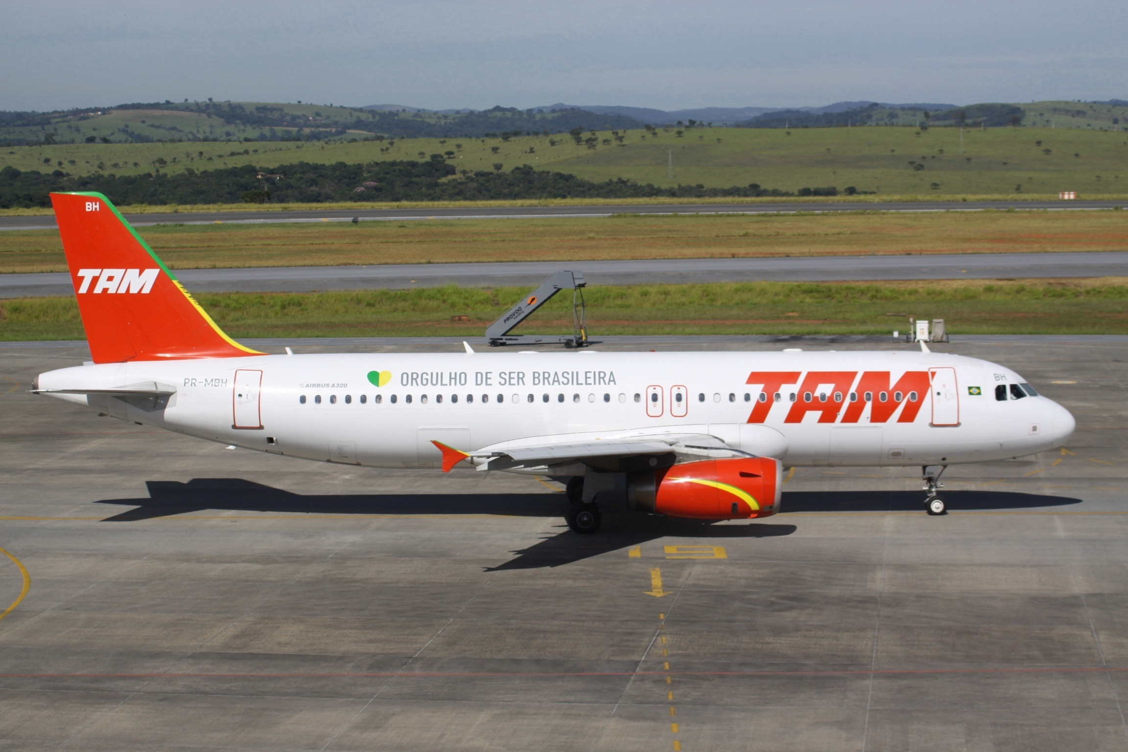 At Belo Horizonte Tancredo